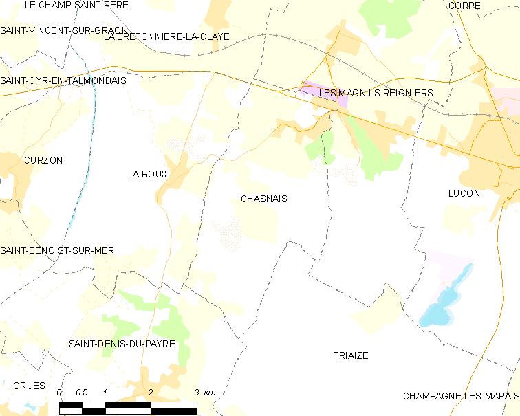 Map of French municipality Chasnais